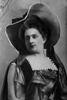 image of the famous soprano